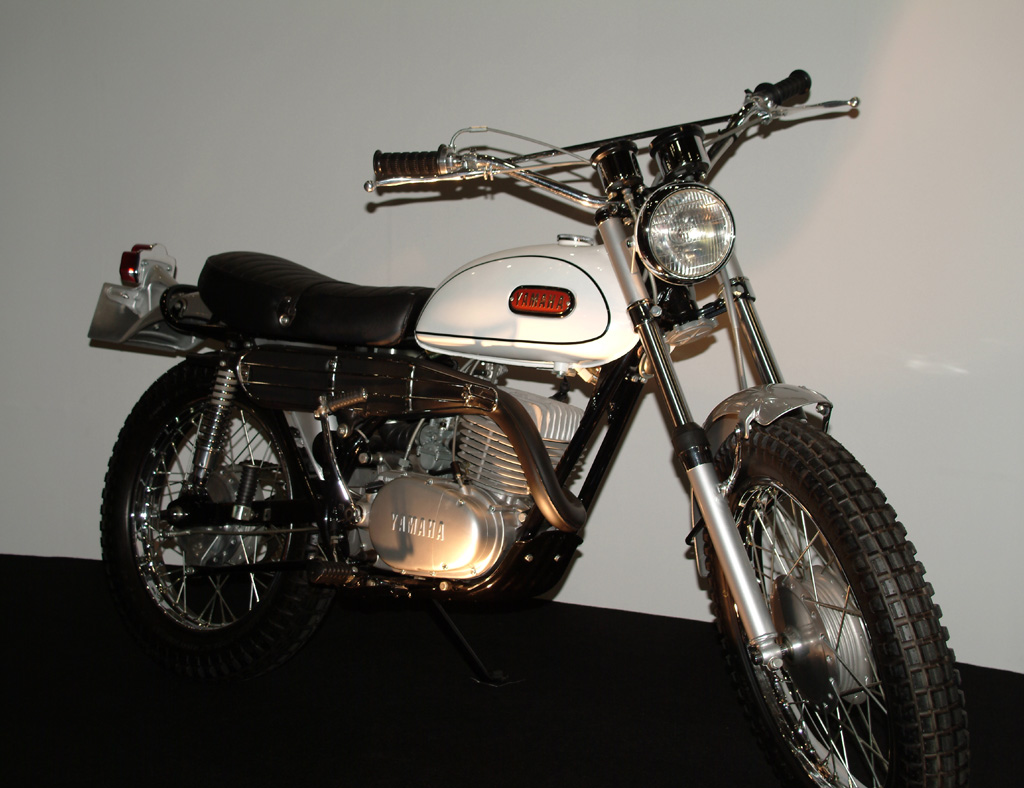 Yamaha DT-1